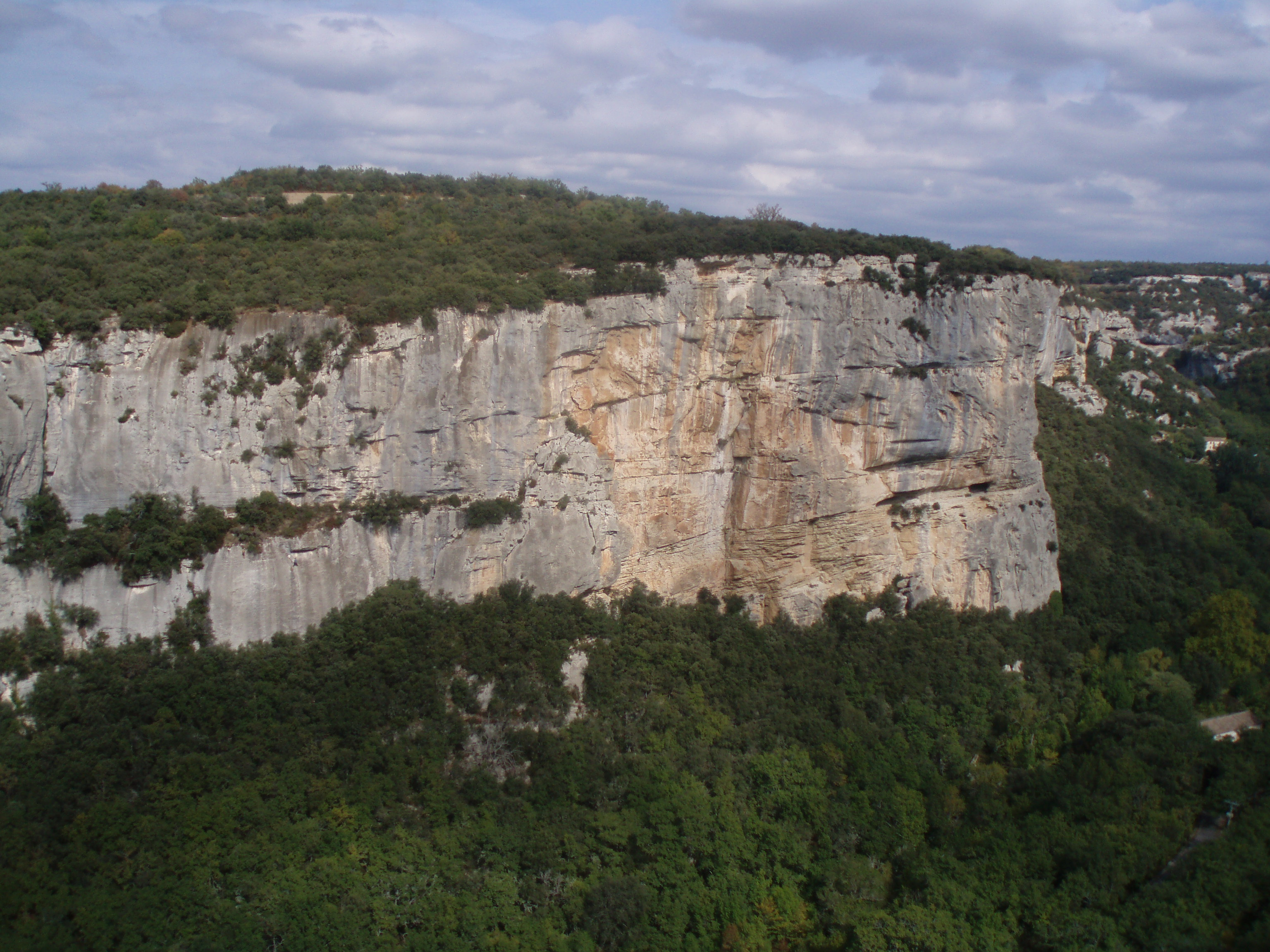 some of the limestone/sandstone cliffs at Buoux, Haute Provence, France